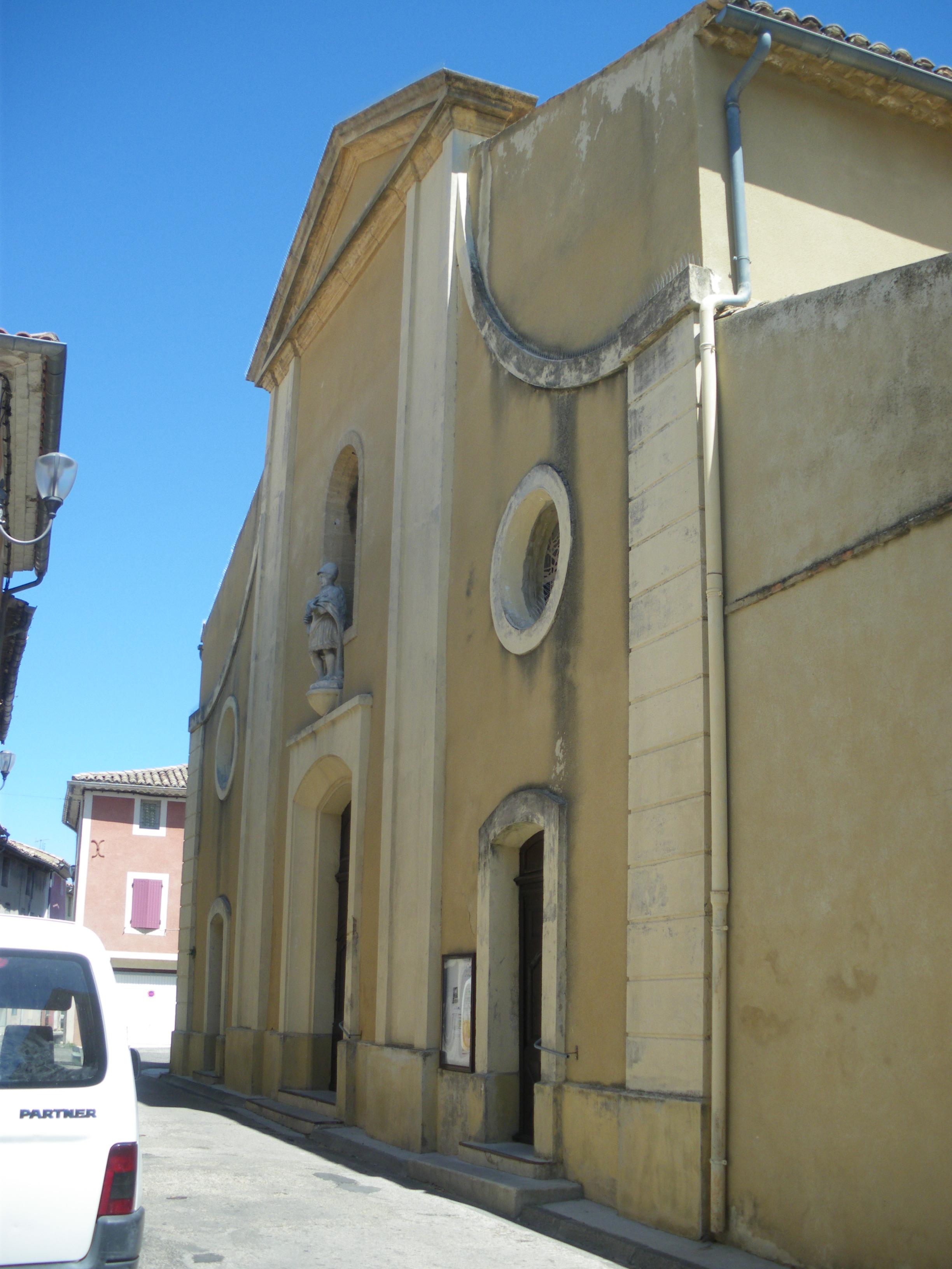 Church of Jonquières, Vaucluse, France